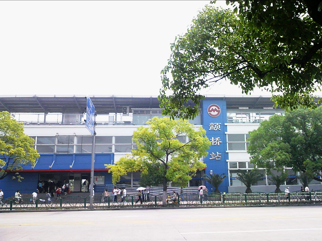 Zhuanqiao Station, Shanghai